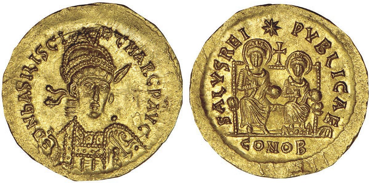 Basiliscus and Marcus (475-476). Solidus. Constantinople. D N bASILISCI ET MARC P AVG. Helmeted, cuirassed bust of emperor three-quarters right, holding spear over right shoulder, shield on left shoulder. Rv. SALVS REI * PVBLICAE Є. Basilicus left, Marcus right, nimbate, seated facing; each holding a globe with cross; cross between them, star above; in exergue, CONOB. AV 4.48 grams, 6h. RIC X, 1022; Depeyrot 104; MIRB 7. FDC